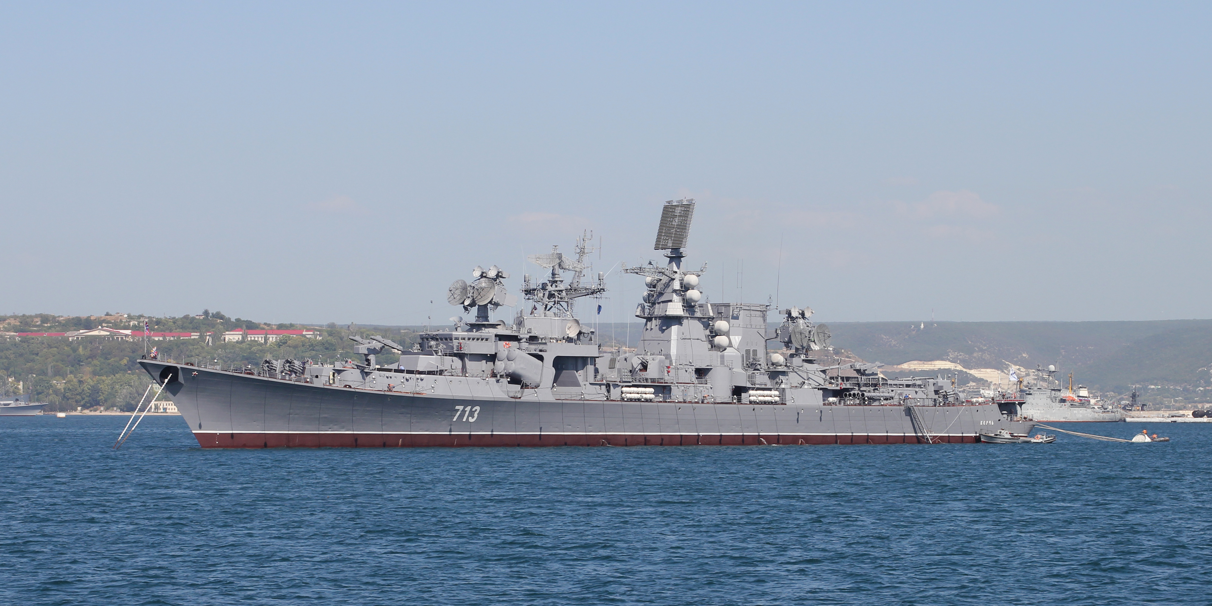 Large ASW Destroyer (also known as cruiser) "Kerch" (Kara class). Project 1134B. Photo taken in Sevastopol bay from a boat.